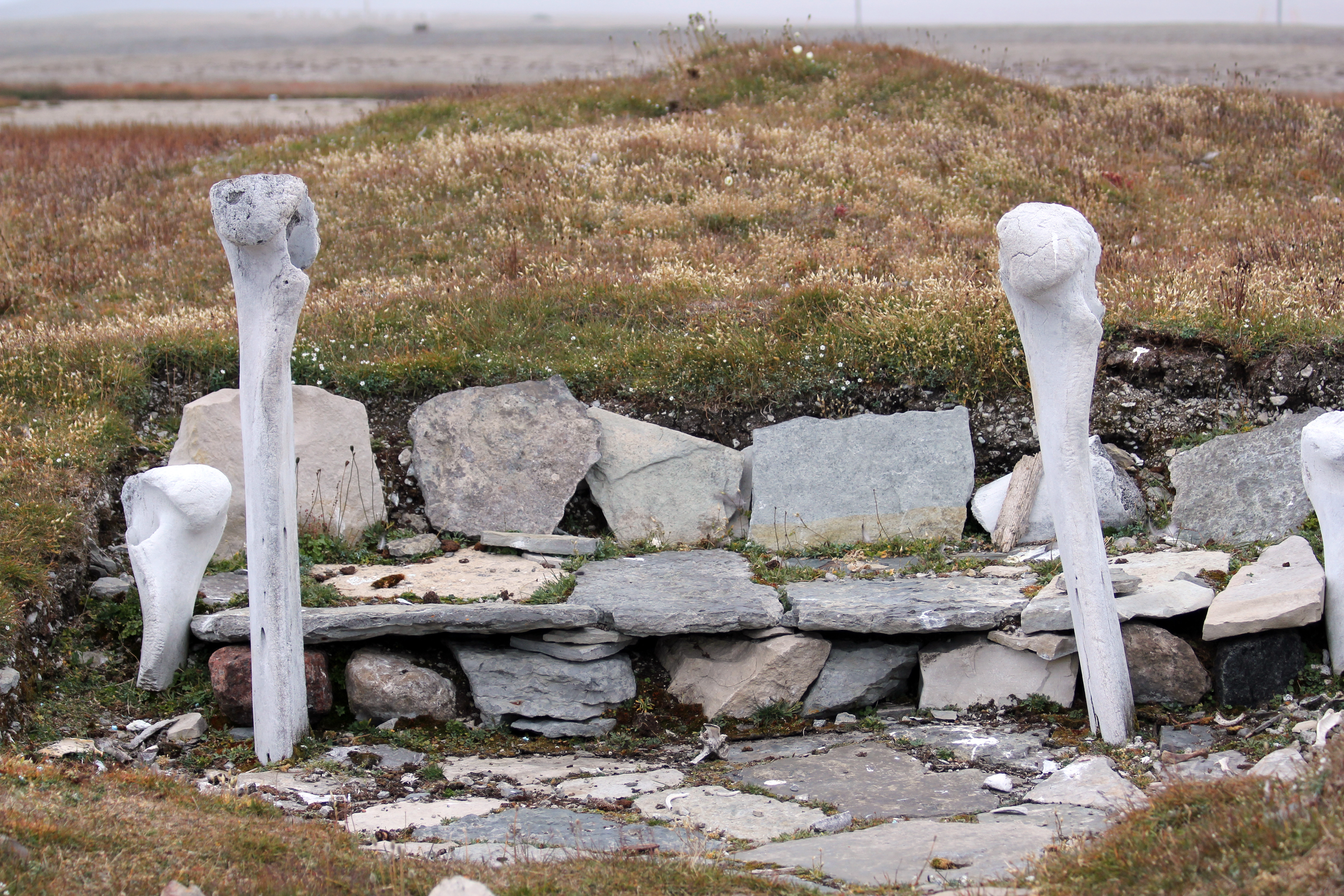 A small hut built some 600 years ago by Innuits of the Thule culture near the hamlet of Resolute Bay. It was restored recently by archaeologists.